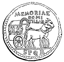 738 woodcuts illustrating the work A Dictionary of Roman Coins, Republican and Imperial (1889). To identify a coin please look at the filename to identify a page number, and check the Dictionary on numiswiki